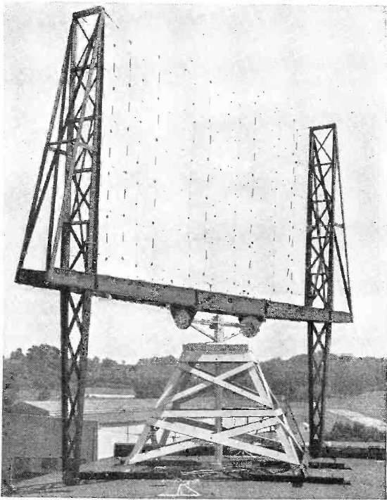 Antenna of one of the first experimental US radars being developed during the late 1930s on the roof of the US Naval Research Laboratory, Anacostia, Washington DC. Operating at 200 MHz, it was the first rotating radar antenna. Research in radiolocation was started as early as 1922 by Naval radio engineers Albert Hoyt Taylor and Leo Clifford Young. In 1930 at the newly opened NRL, with another engineer Lawrence Hyland they began a research program. In 1934 they patented a radar system. This picture shows a "bedspring" antenna made of multiple dipole antennas which was needed to create a beam narrow enough to locate ships or planes. The antenna is mounted on a mast so it can rotate and also tilt to point up into the sky. The rotating mast extends through the roof to a large manual wheel in the room below which contains the radar equipment, so it can be rotated by hand. Caption: Closeup of the antenna of the first complete radar, installed "topside" of a building at the Naval Research Laboratory, Anacostia, D. C. in the late 1930s. It is a "dirigible" antenna, meaning that it is so mounted that it can be turned to allow for around the compass search